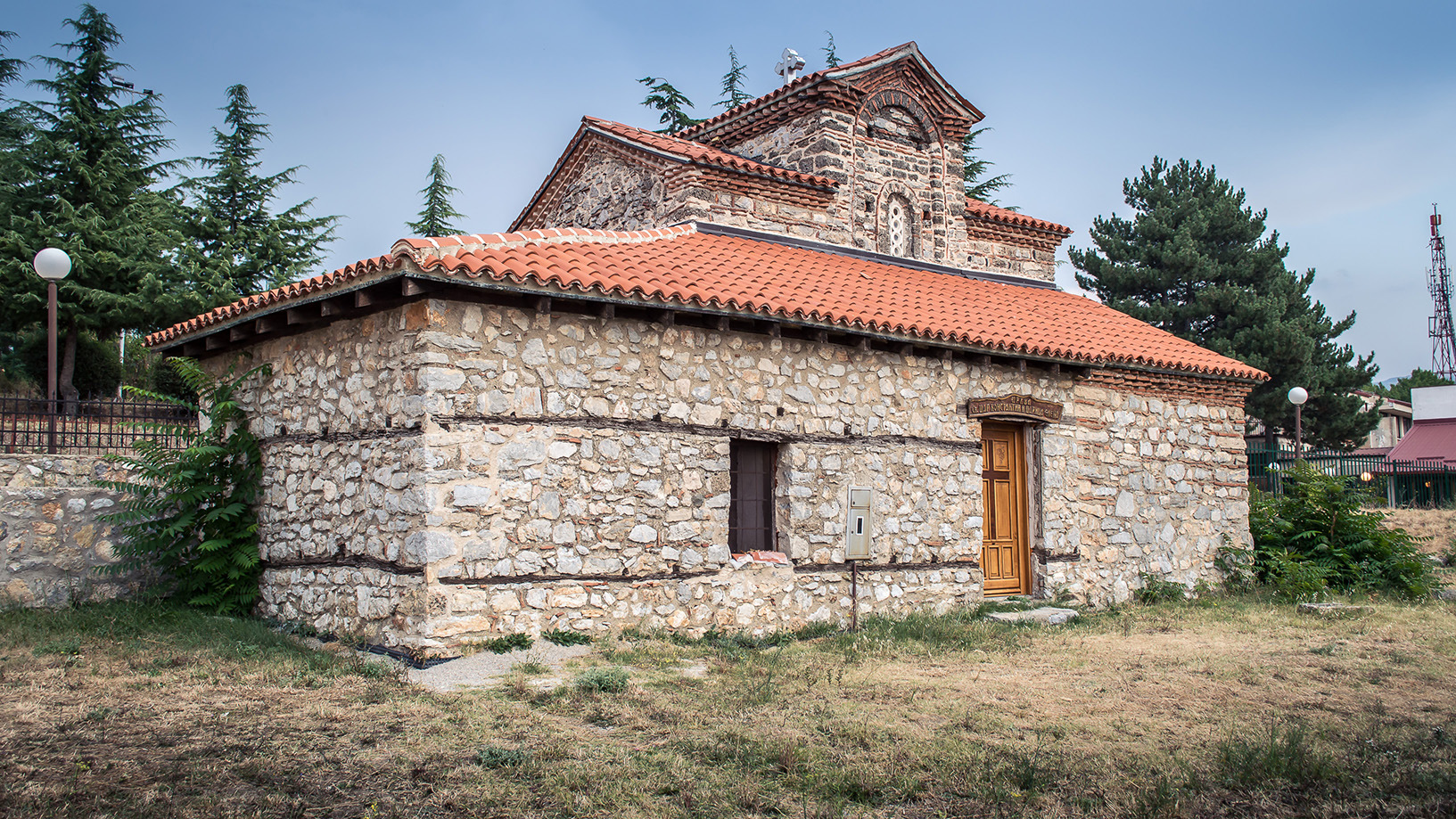 Church of Car Konstantin and Carica Elena, Ohrid, Macedonia